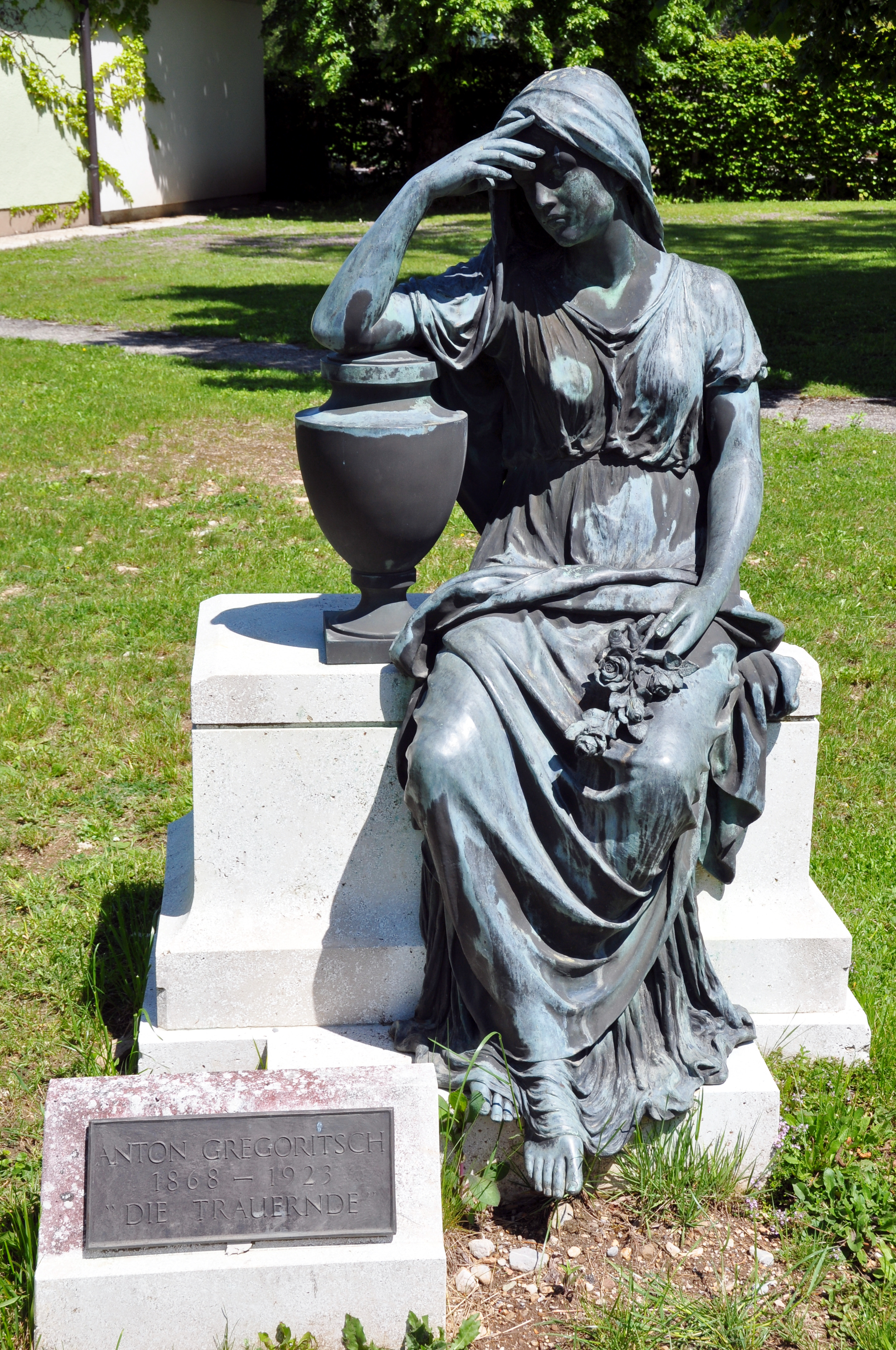 Sculpture "The Mourning" at the square in front of the Park Cemetery, Georg Lora Strasse #28, municipality Ferlach, district Klagenfurt Land, Carinthia, Austria, EU